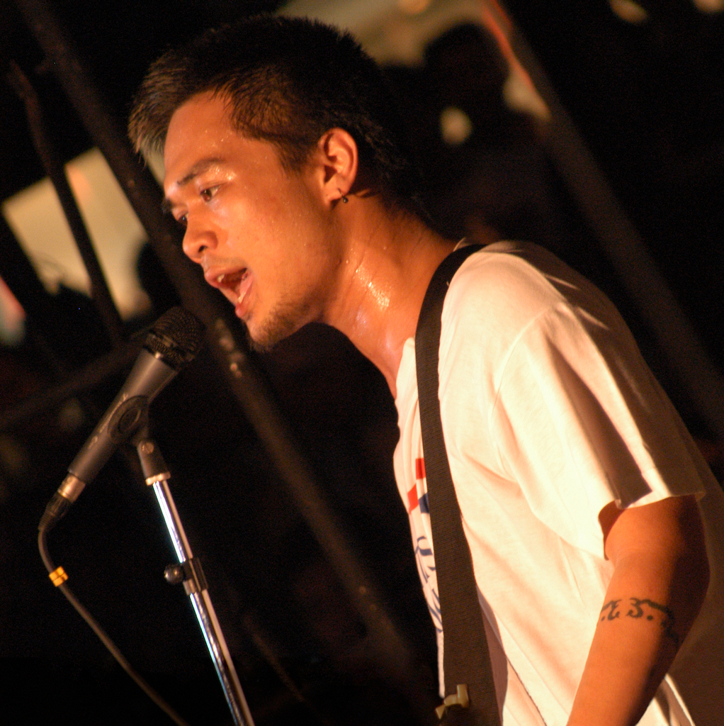 Marc Abaya with Sandwich at the Alabang Town Center.